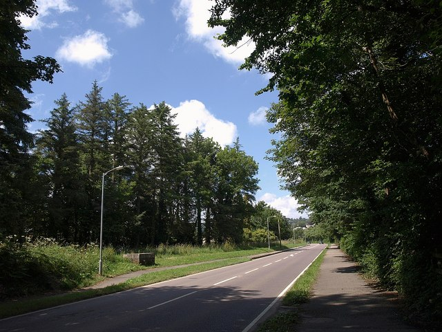 Pentewan Road, Tregorrick The B3273 runs alongside the St Austell River (which flows beneath the tall trees), and the cycle trail from Pentewan is here relegated to a pavement beside the road.